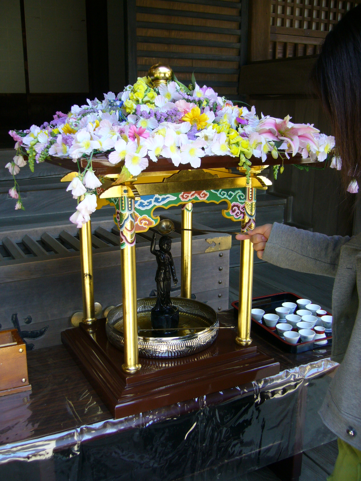 Hana-matsuri (Flower Festival) on the birthday of the Buddha at Kanpuku-ji in Katori City, Japan. Visitors to the temple can pour water over the figurine of baby Buddha with a ladle to re-enact the bathing of the newborn.